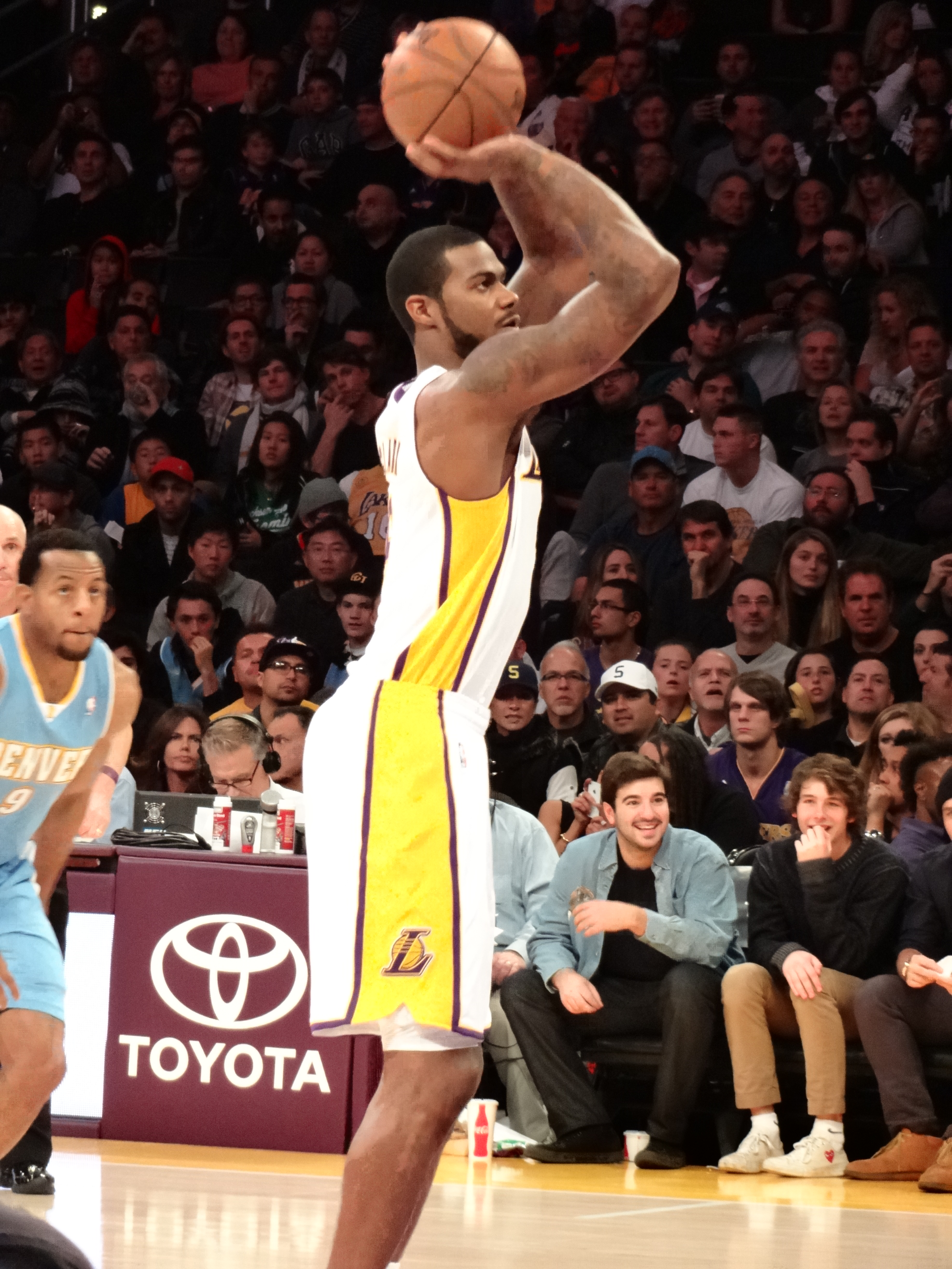 Los Angeles Lakers vs Denver Nuggets at the Staples Center. Earl Clark takes a free throw.